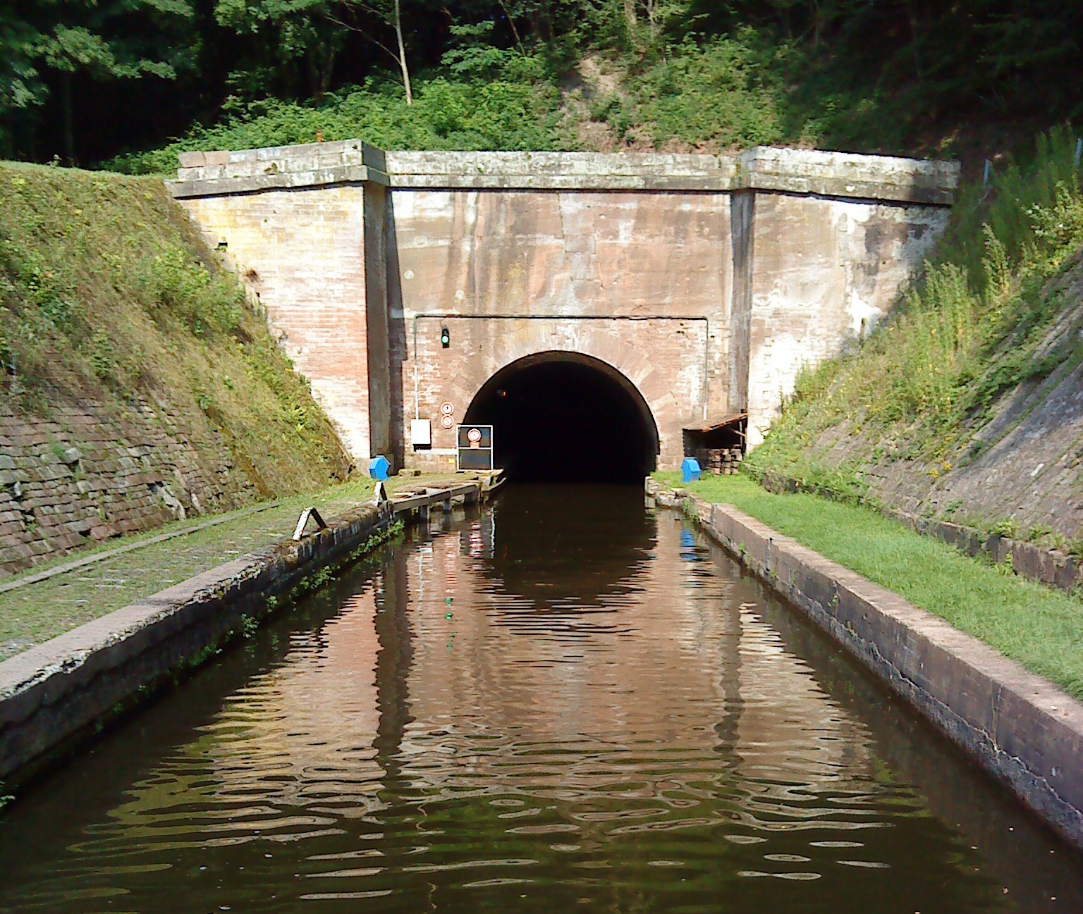 Tunnel of the Marne–Rhine Canal near Arzviller